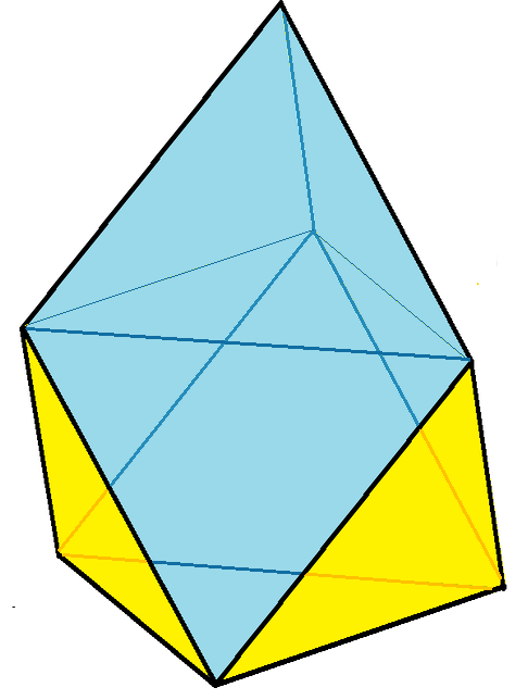 diminished trigonal trapezohedron as regular octahedron augmented by regular tetrahedron